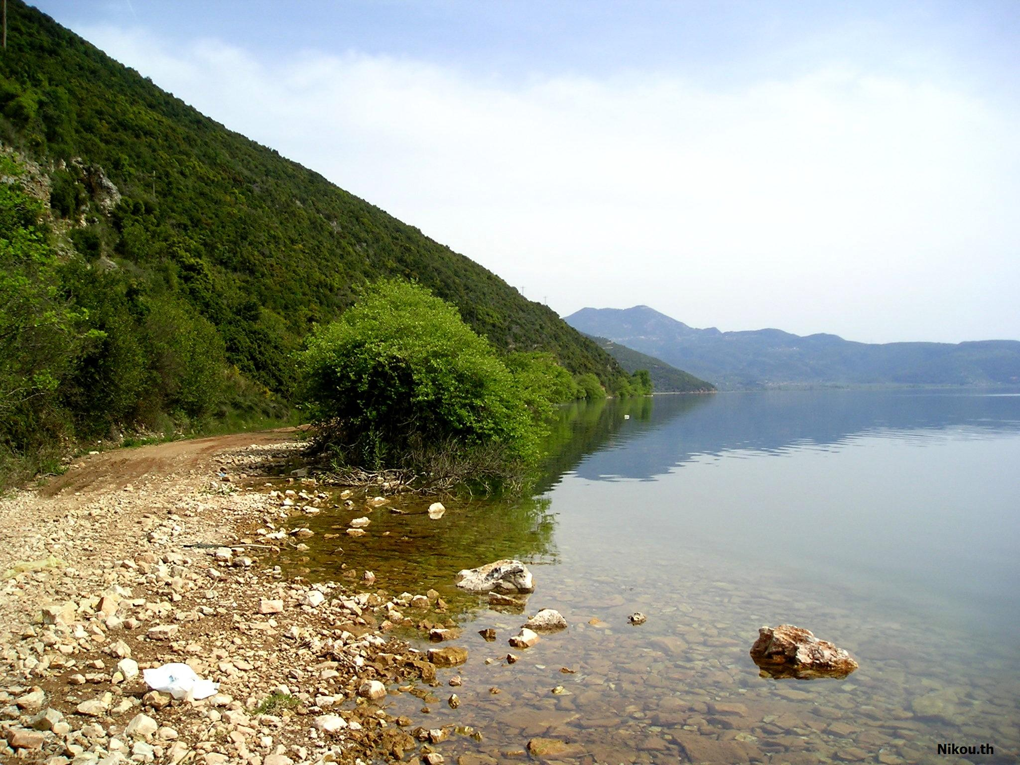 Trichonida lake in Etoloakarnania prefecture, Greece